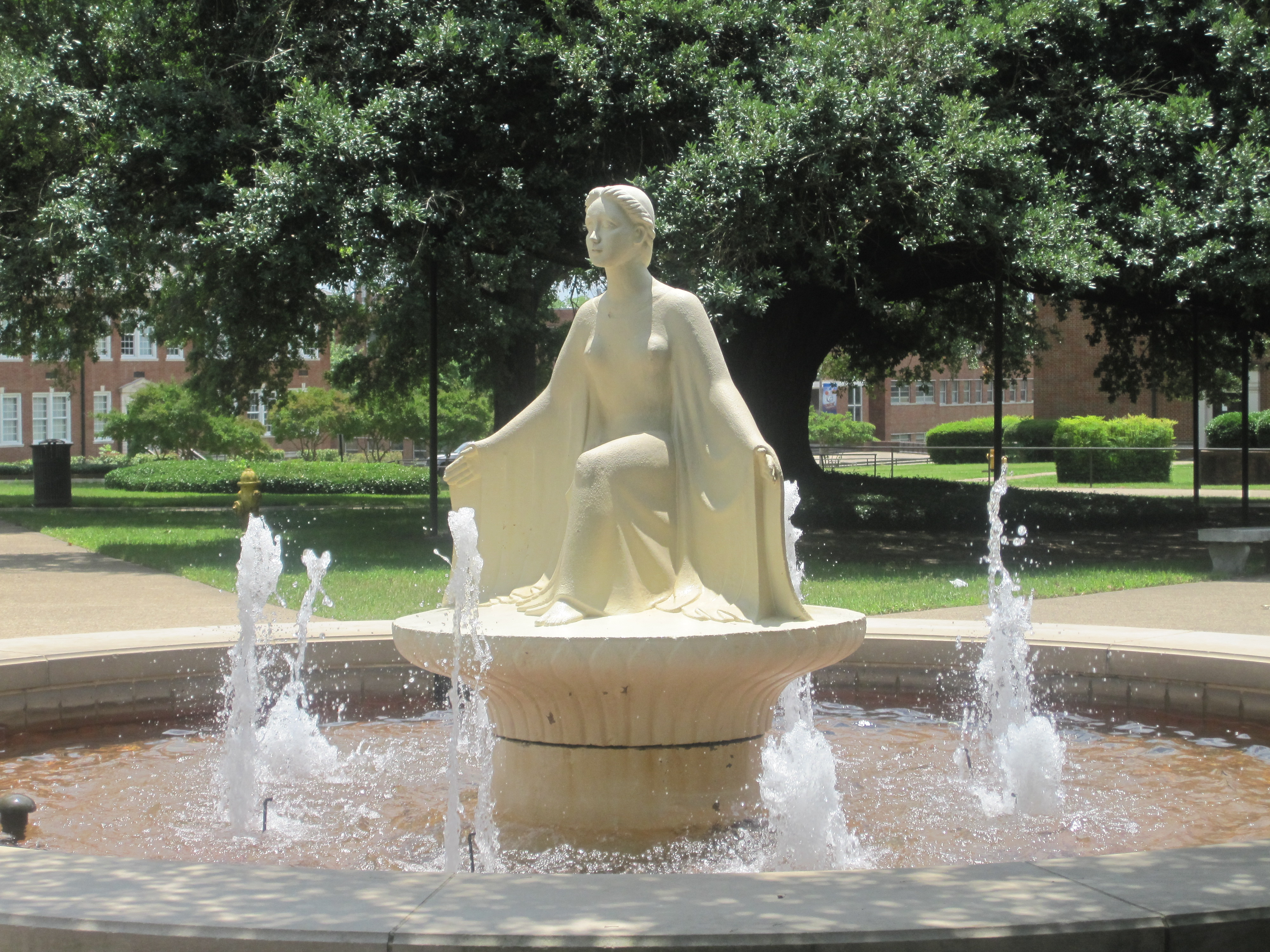 I took photo with Canon camera.